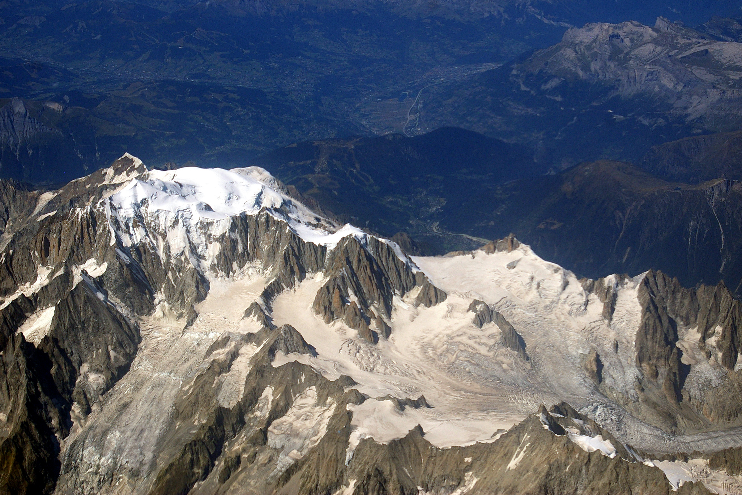 View from a plane to the south side of Mont Blanc